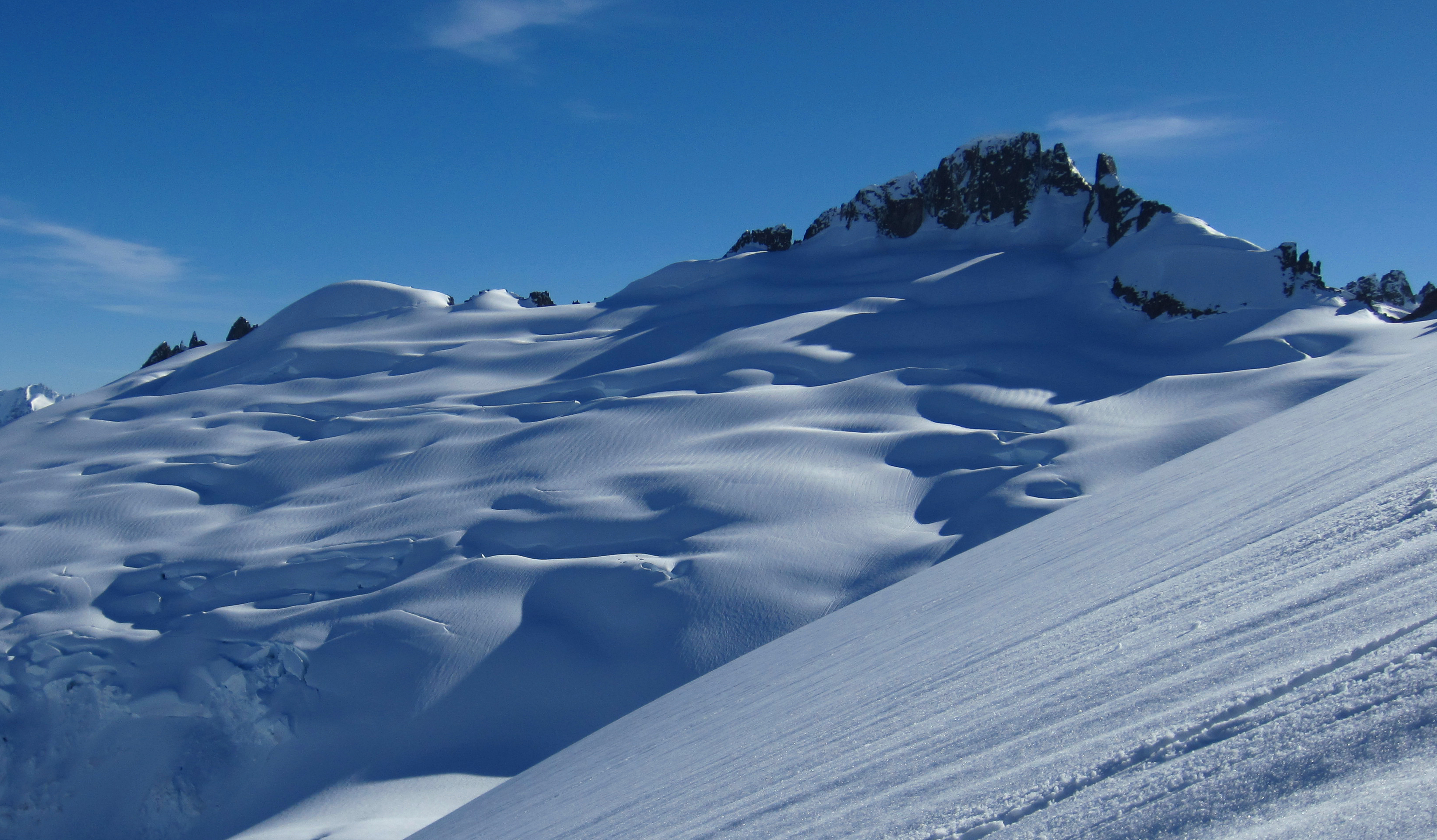 Ascending the Klawatti Glacier.